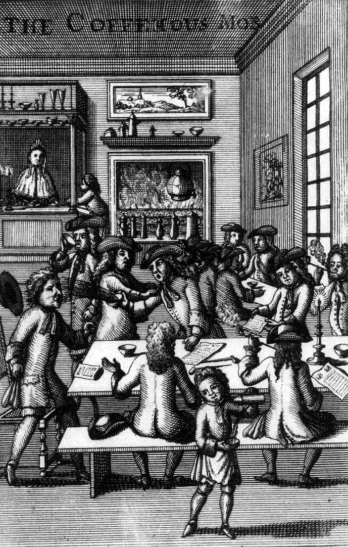 The Coffeehous Mob, frontispiece to Ned Ward, Vulgus Brittanicus, or the British Hudibras part iv (1710)